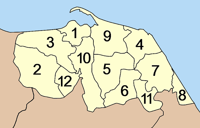 Map of Pattani province, Thailand, with the districts (Amphoe) numbered. Mueang Pattani (อำเภอเมืองปัตตานี) Khok Pho (อำเภอโคกโพธิ์) Nong Chik (อำเภอหนองจิก) Panare (อำเภอปะนาเระ) Mayo (อำเภอมายอ) Thung Yang Daeng (อำเภอทุ่งยางแดง) Sai Buri (อำเภอสายบุรี) Mai Kaen (อำเภอไม้แก่น) Yaring (อำเภอยะหริ่ง) Yarang (อำเภอยะรัง) Kapho (อำเภอกะพ้อ) Mae Lan (อำเภอแม่ลาน)